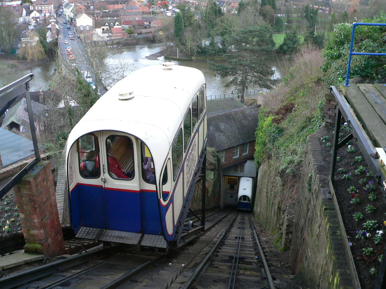 Bridgnorth Cliff Railway - Looking down from the top station